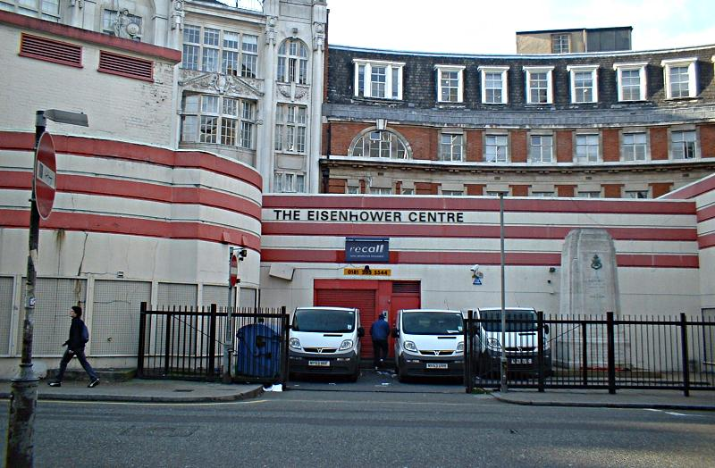 Goodge Street deep level shelter entrance. Taken by C Ford March 2004.